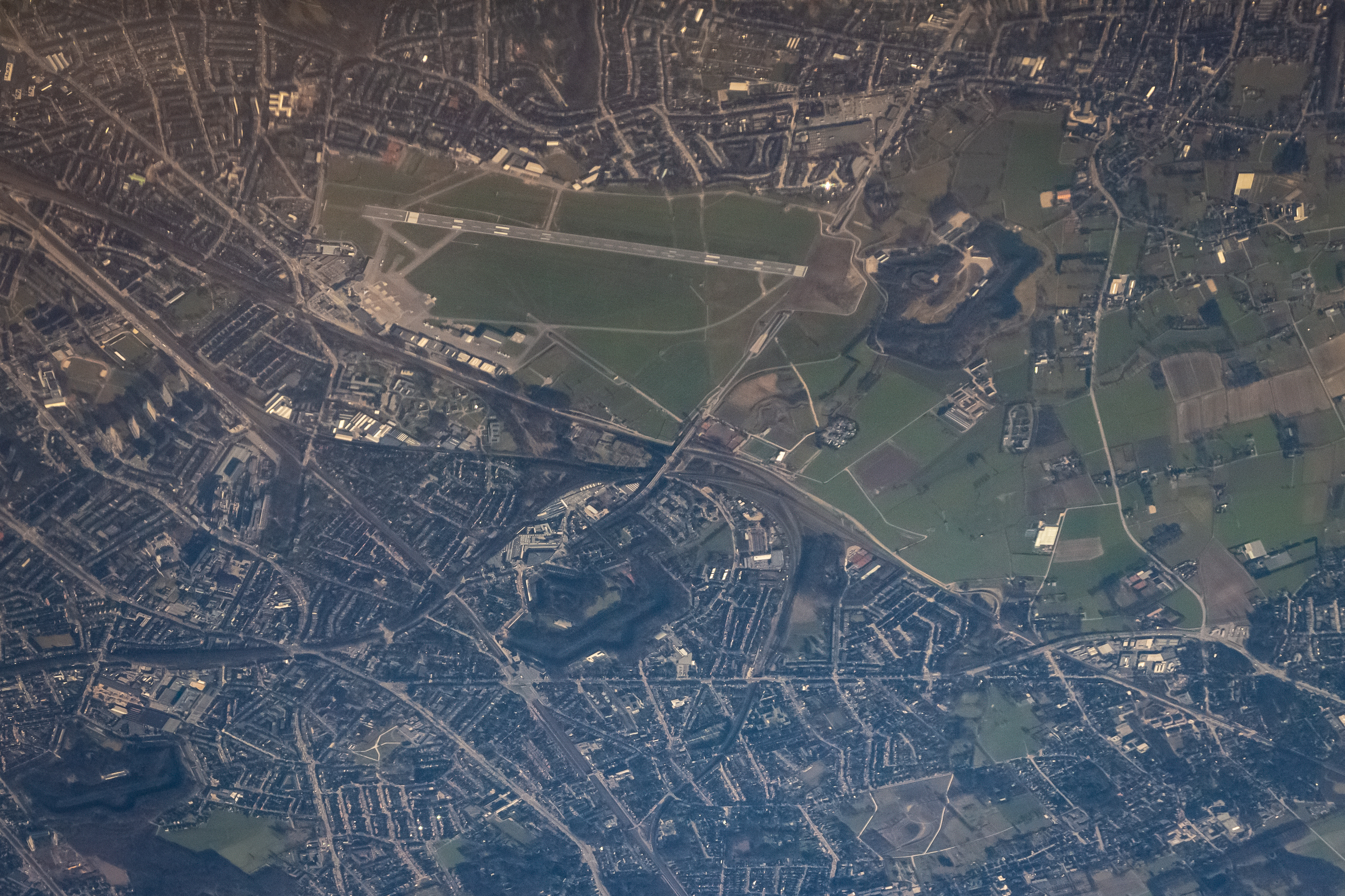 Antwerp Airport